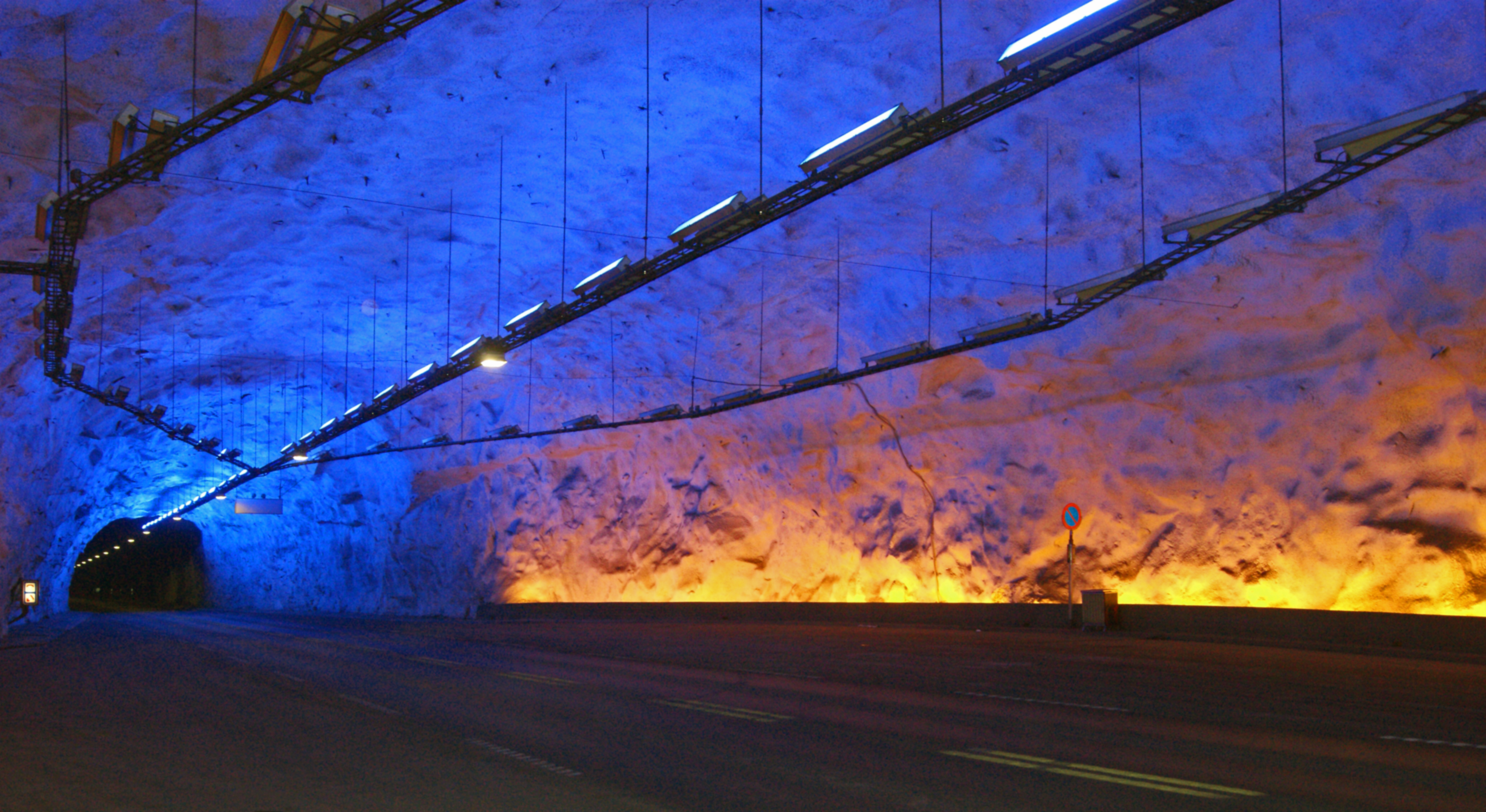 World's longest road tunnel in Lærdal, Norway